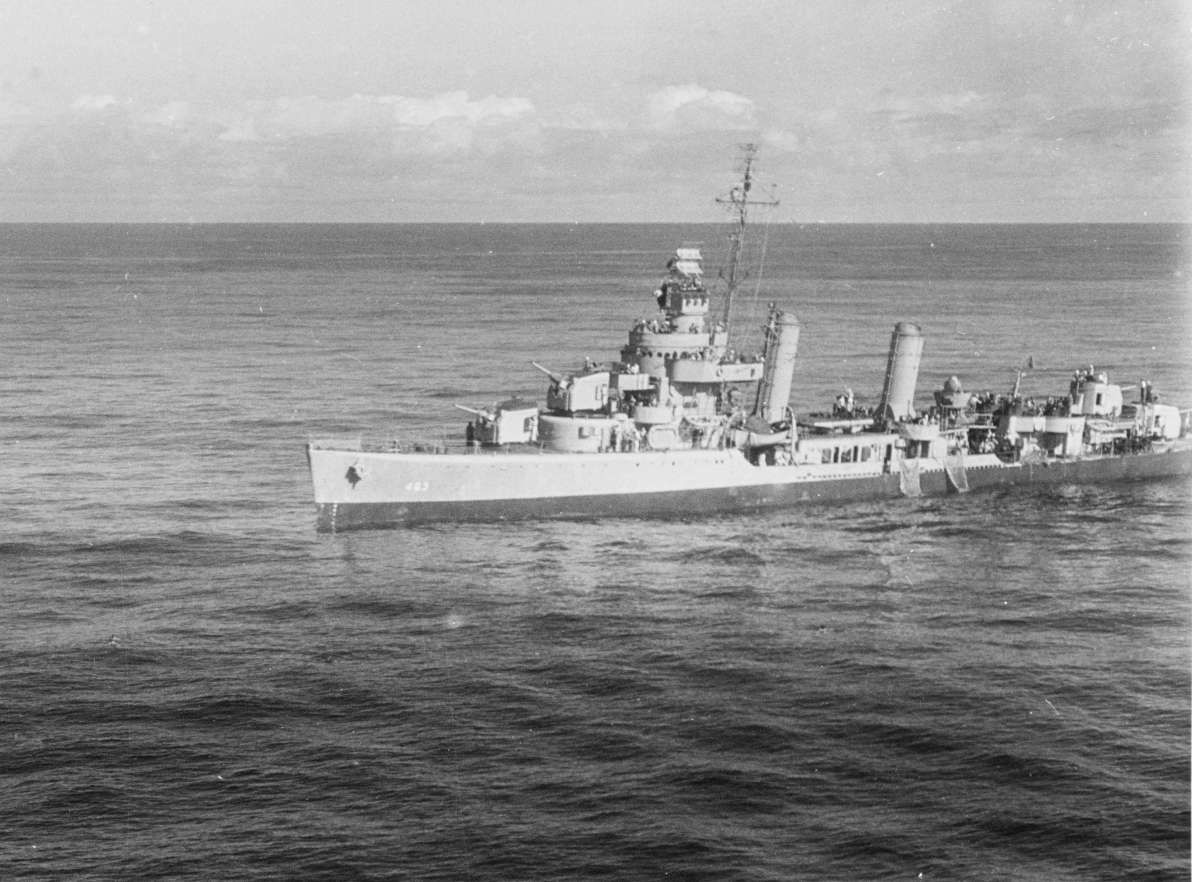 The U.S. Navy destroyer USS Corry (DD-463) with nets over her side, rescuing survivors of German submarine U-801, after the submarine had been sunk by aircraft and surface ships of the USS Block Island (CVE-21) Hunter-Killer-Group in position 16°41'N, 29°58'W, 17 March 1944. U-801 was sunk by a Fido homing torpedo by two Avenger and one Wildcat aircraft of Composite Squadron 6 (VC-6) from USS Block Island, along with depth charges and gunfire from Corry and USS Bronstein (DE-189). Lieutenant Junior Grade Paul Sorenson strafed and Lieutenant Junior Grade Charles Woodell depth charged U-801.